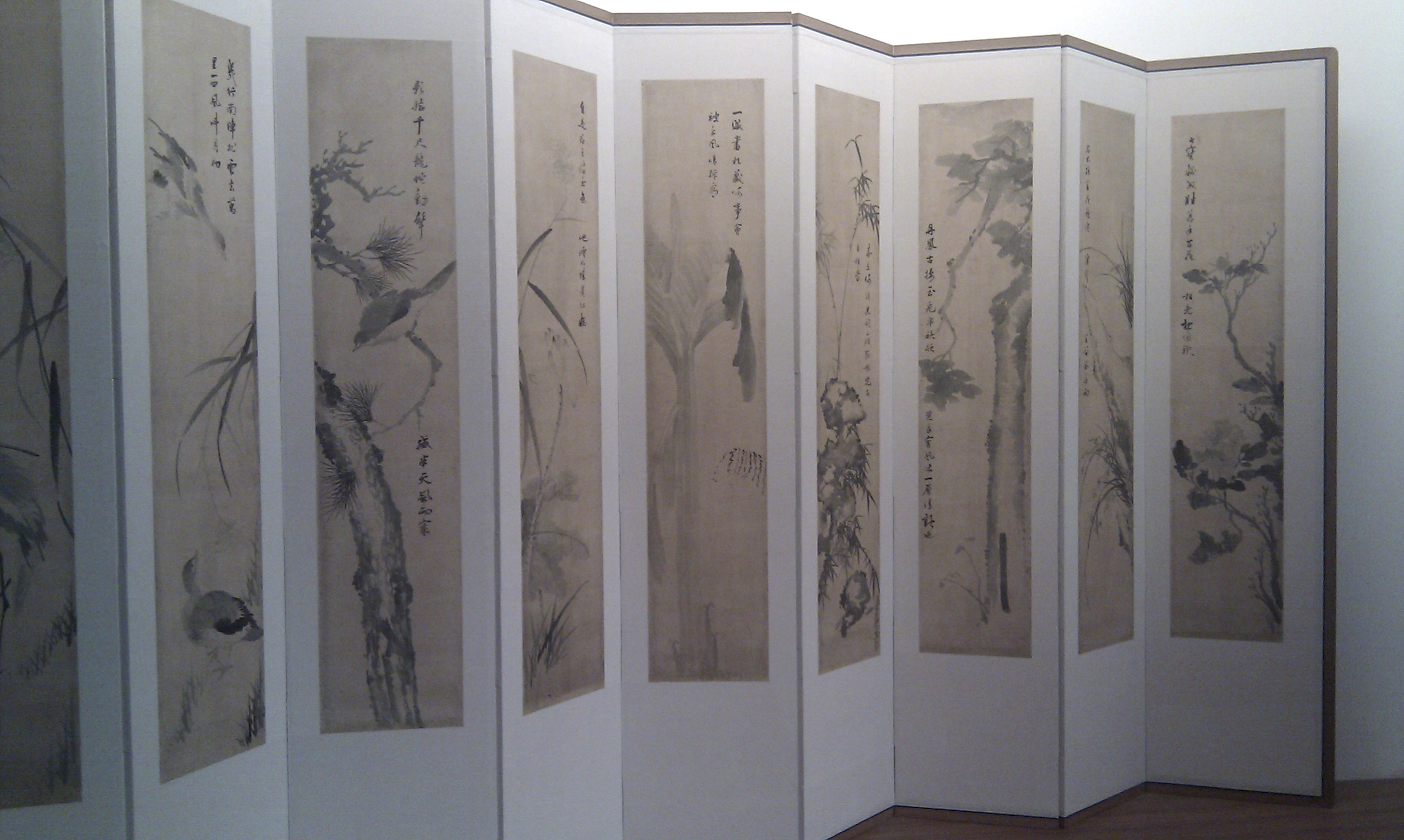 Folding screen Photograph is captioned as "Musée Guimet - Paravent coréen" in the source.